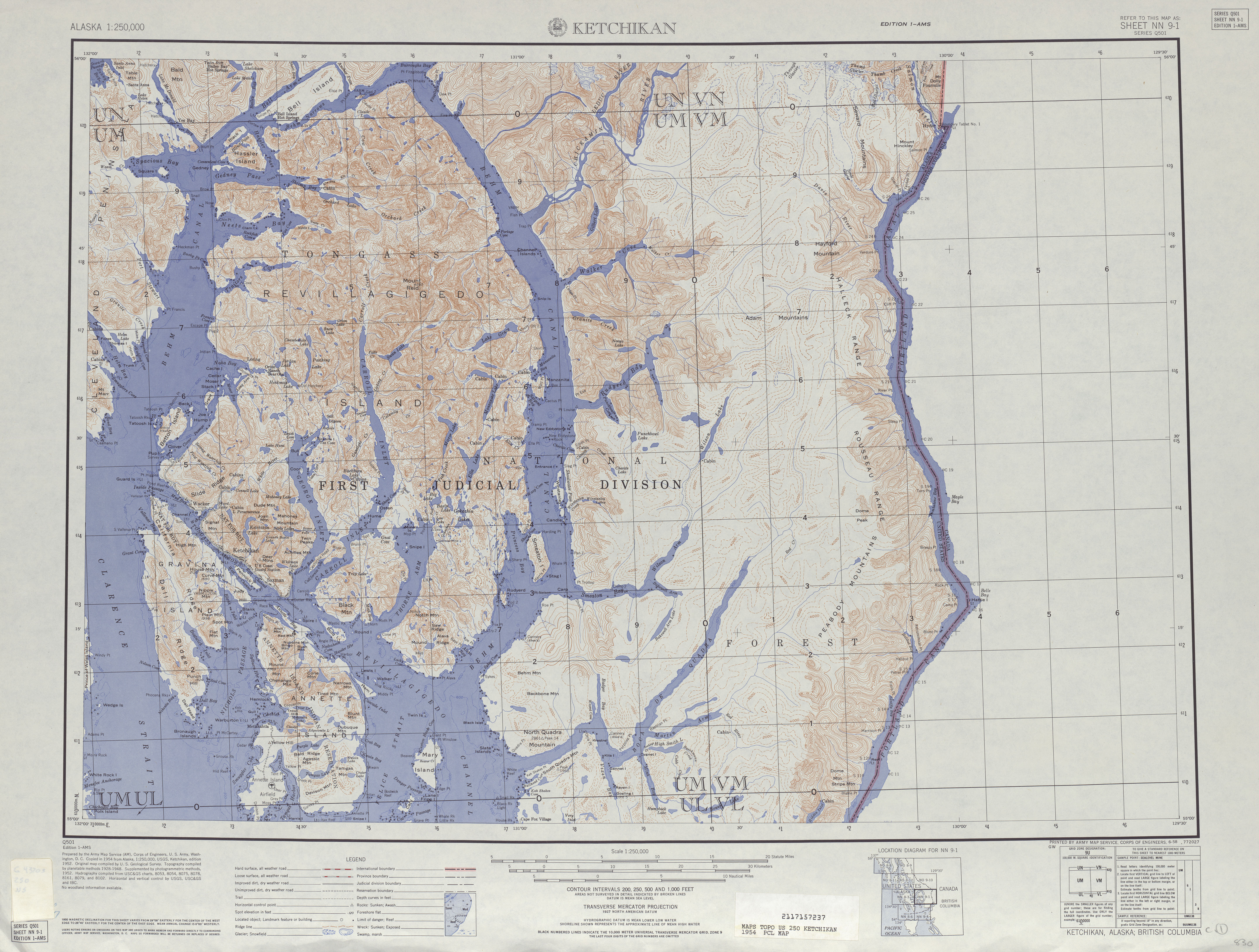 topographic map sheet Ketchikan, southeast Alaska